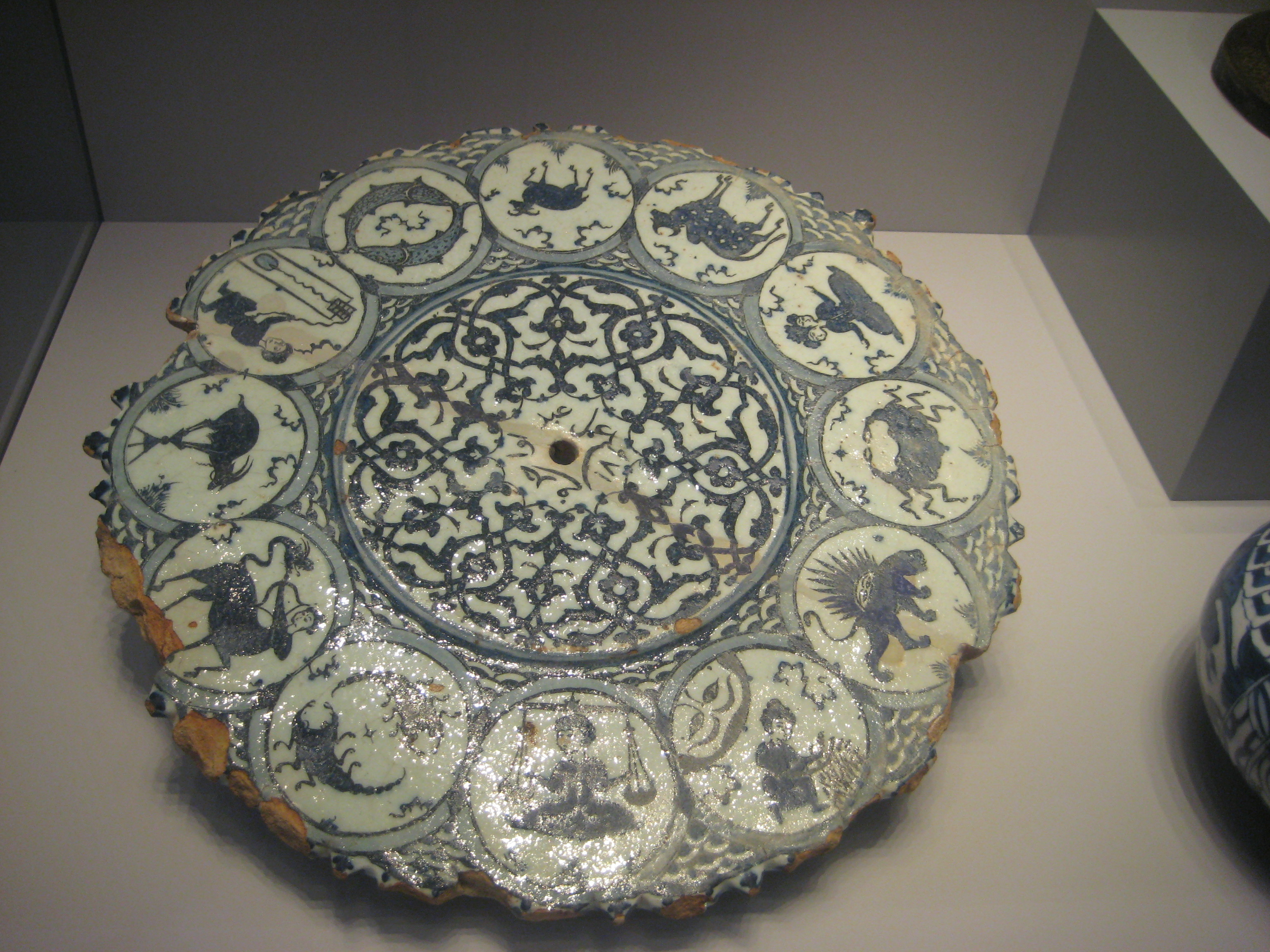 Islamic zodiac and astrological lion and sun symbol, the Pergamon Museum in Berlin, Germany